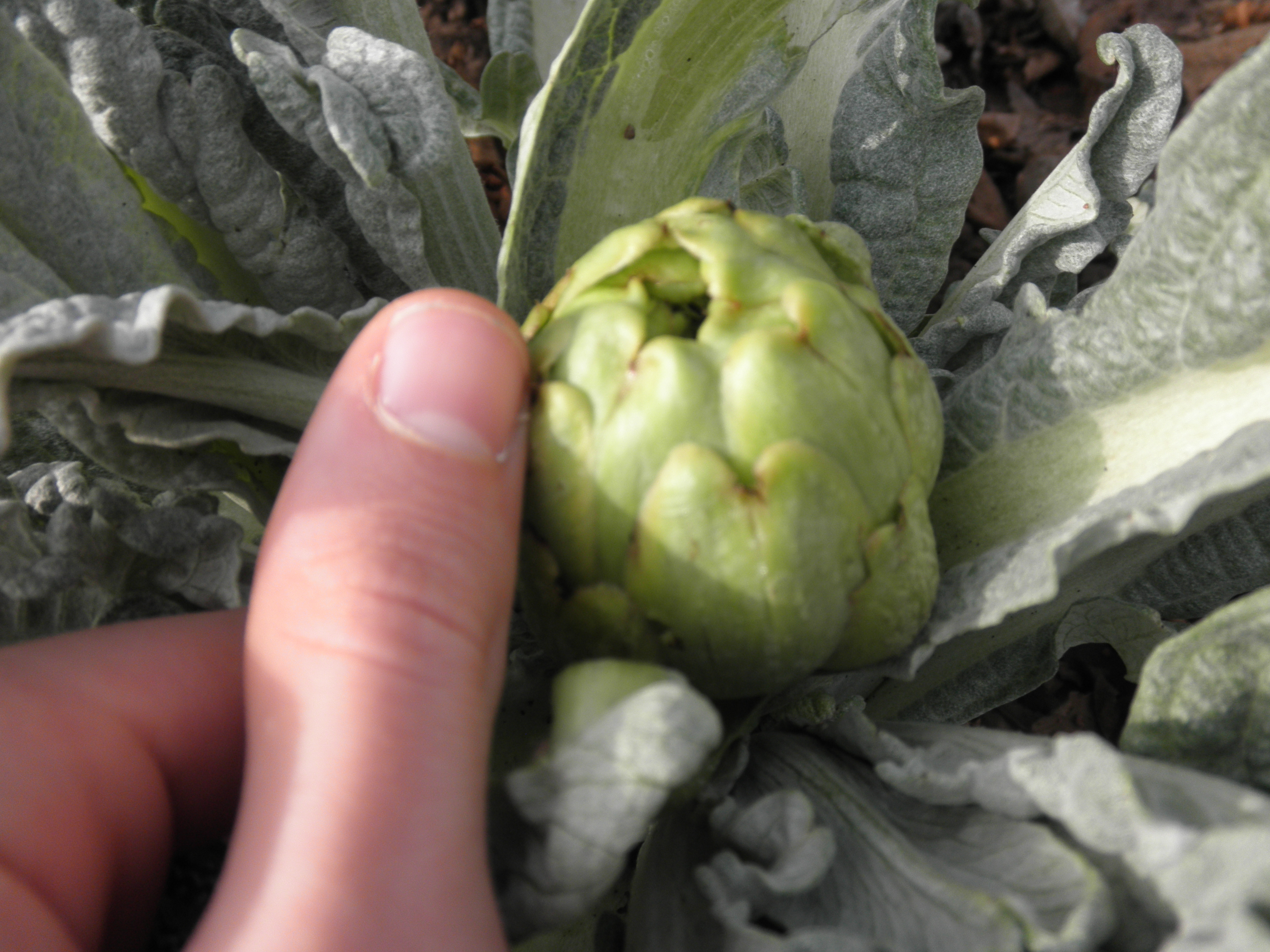 Young artichoke.